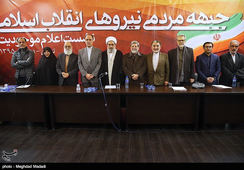 Meeting of Existence Declaration of the Popular Front of Islamic Revolution Forces on 25 Desember 2016